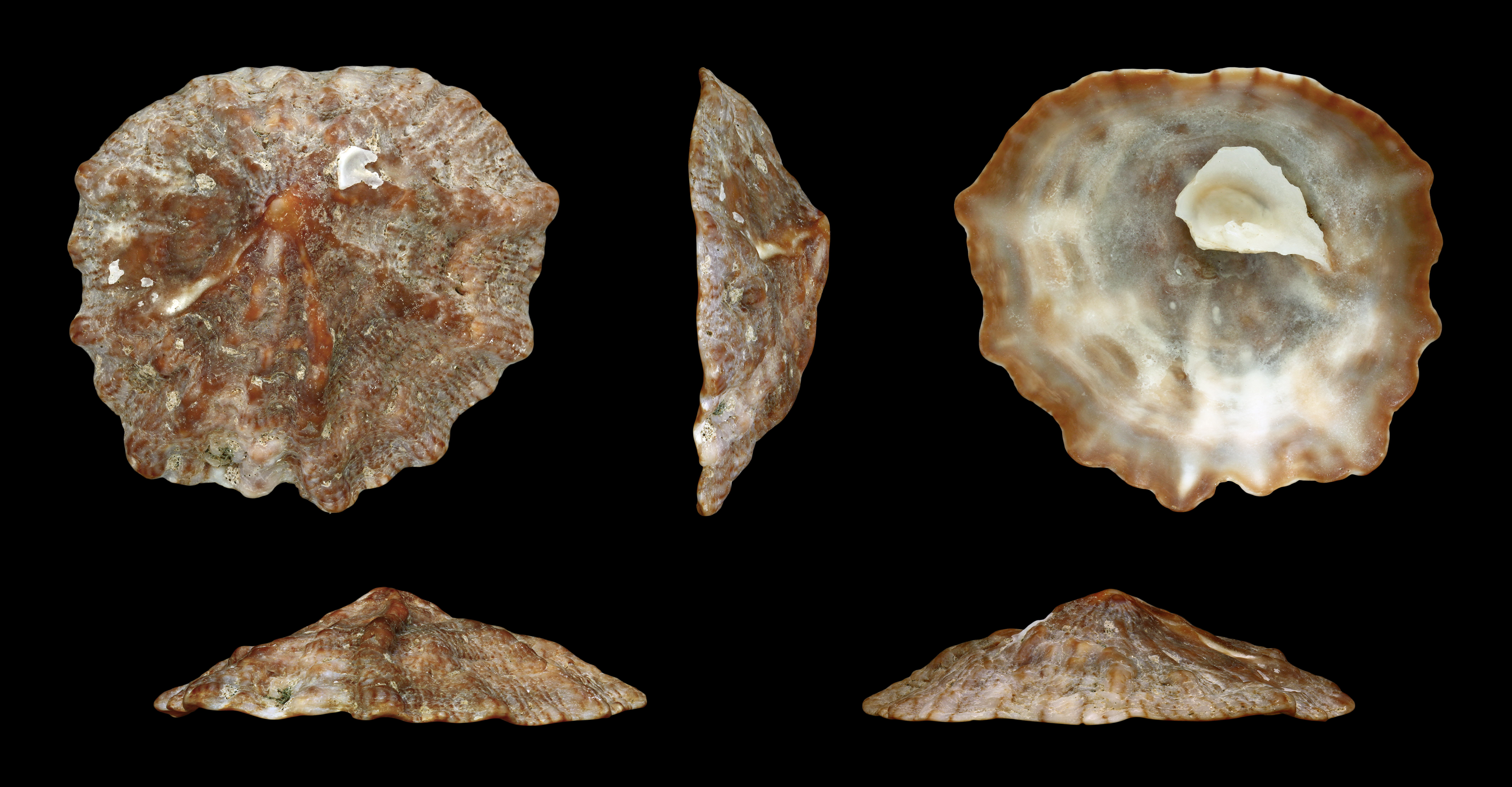 Shield Cup-and-Saucer; Diameter 4.0 cm; Originating from the Pacific coast of Guatemala; Shell of own collection, therefore not geocoded. Dorsal, lateral (right side), ventral, back, and front view.